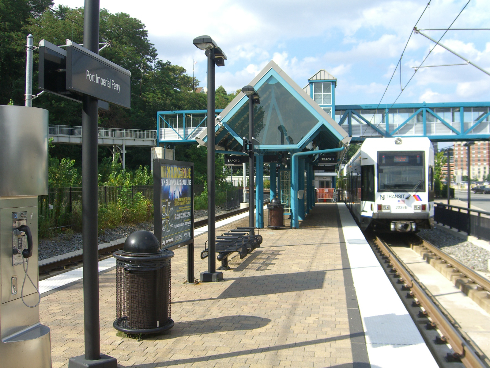 The Port Imperial station on the Hudson-Bergen Light Rail in Weehawken, New Jersey. Photo by Luigi Novi. This photo may be used for any purpose, provided that the photographer is visibly credited in each instance where it is used (See Licensing information below). For further information on the Licensing requirements, contact me here.